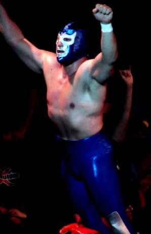 The mexican professional wrestler Blue Demon Jr.